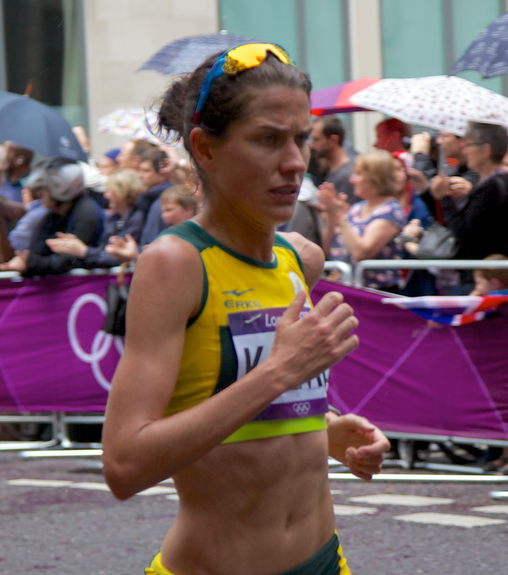 Women's Marathon